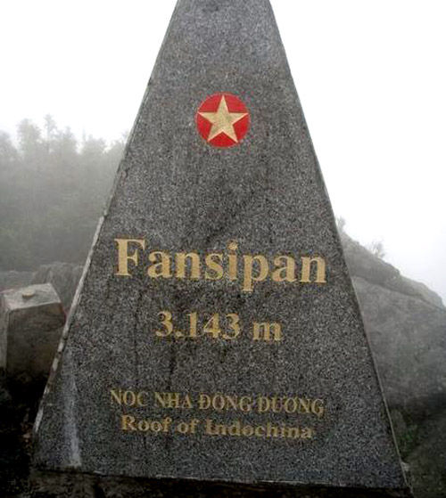 fansipan tours, sapa tours